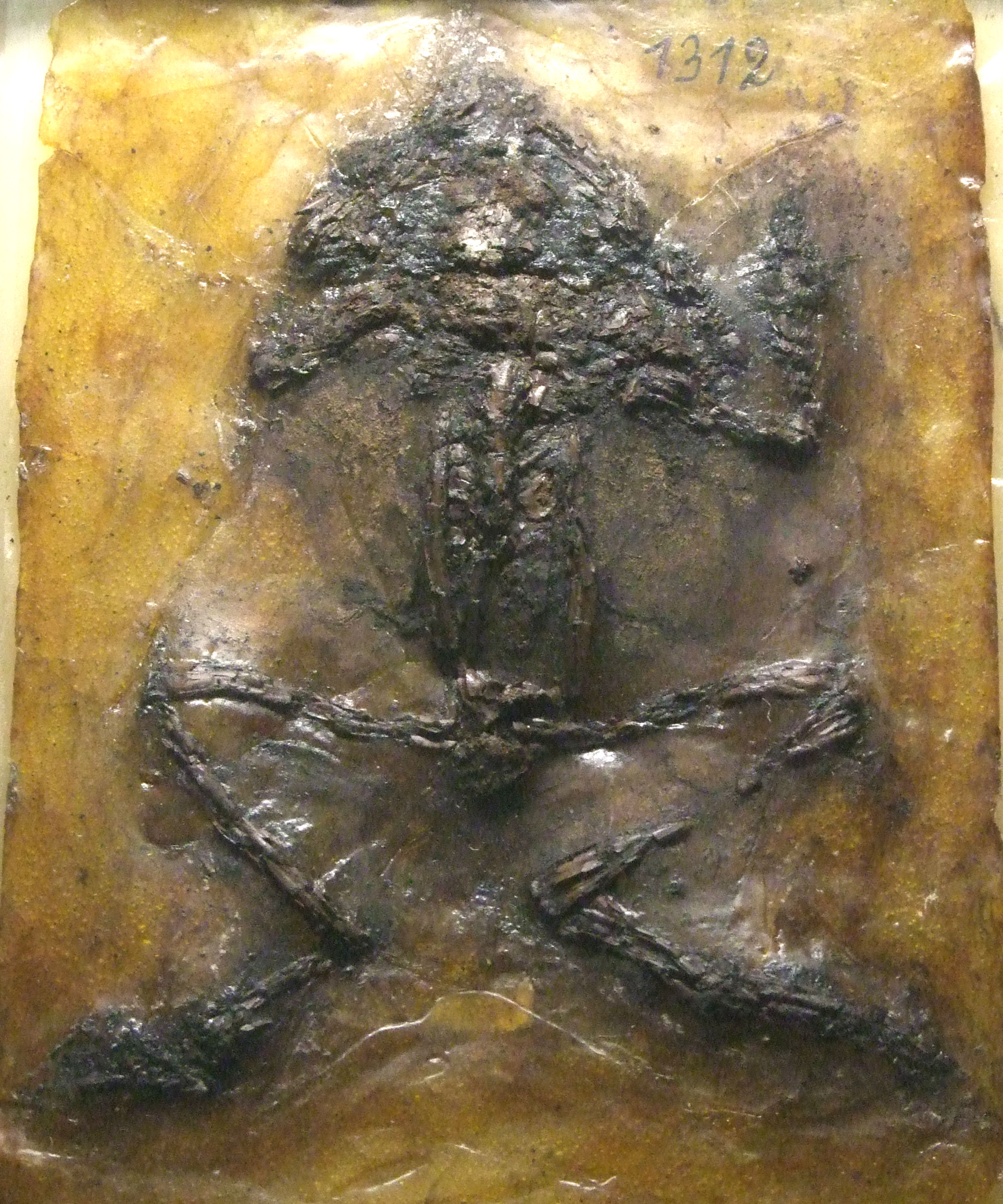 Skeleton of Eopelobates from the Geiseltal fossil site in the Exhibition "Climate Powers - Driving Force of Evolution" in the State Museum of Prehistory in Halle/Saale, Germany